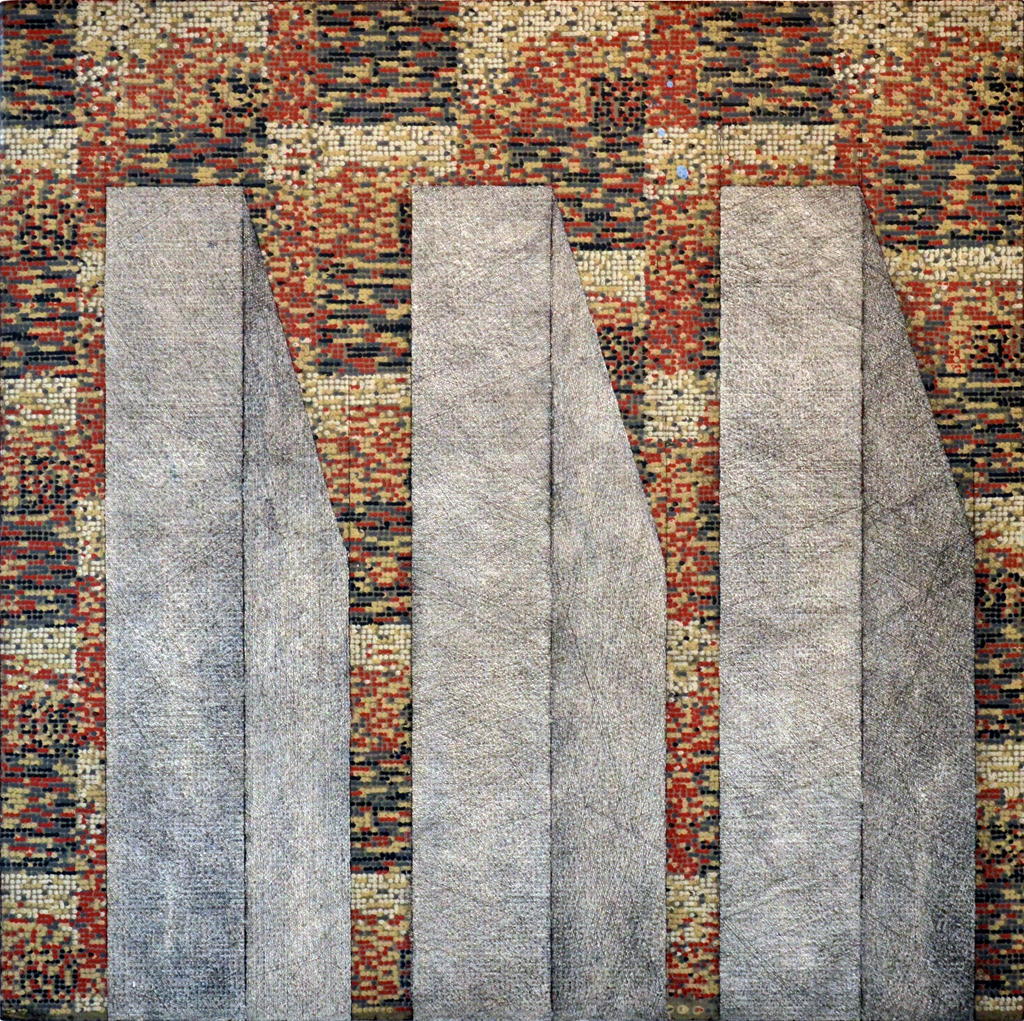 Vladimír Kopecký, Larger Pillars, 1969